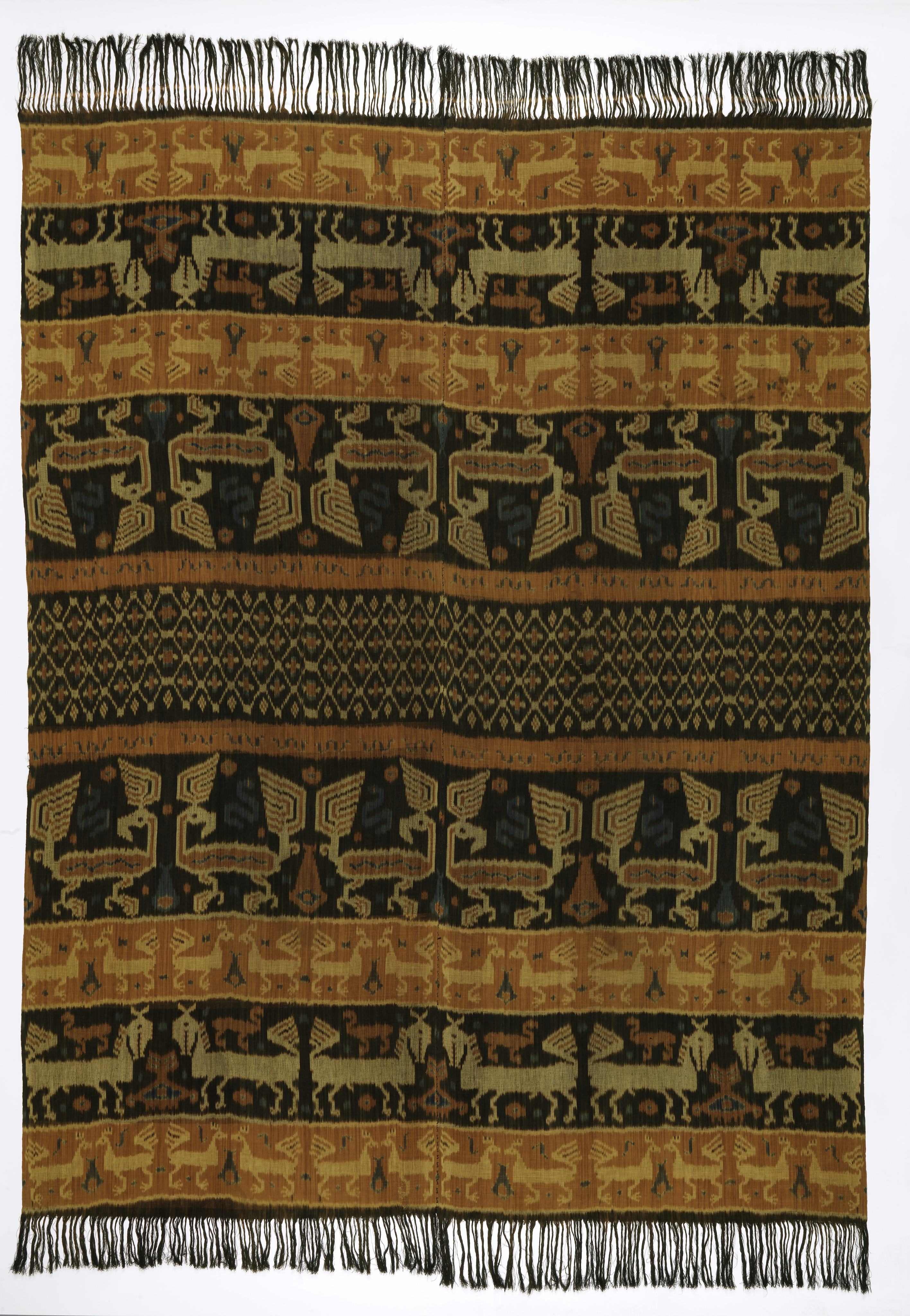 Men's wrapper (hinggi) with horizontal bands displaying horse, bird (maybe rooster), and snake or 'naga' motifs. Also features a middle band of diamond lattice. Colored in black, orange, tan, white, and blue. Warp fringe at both ends.